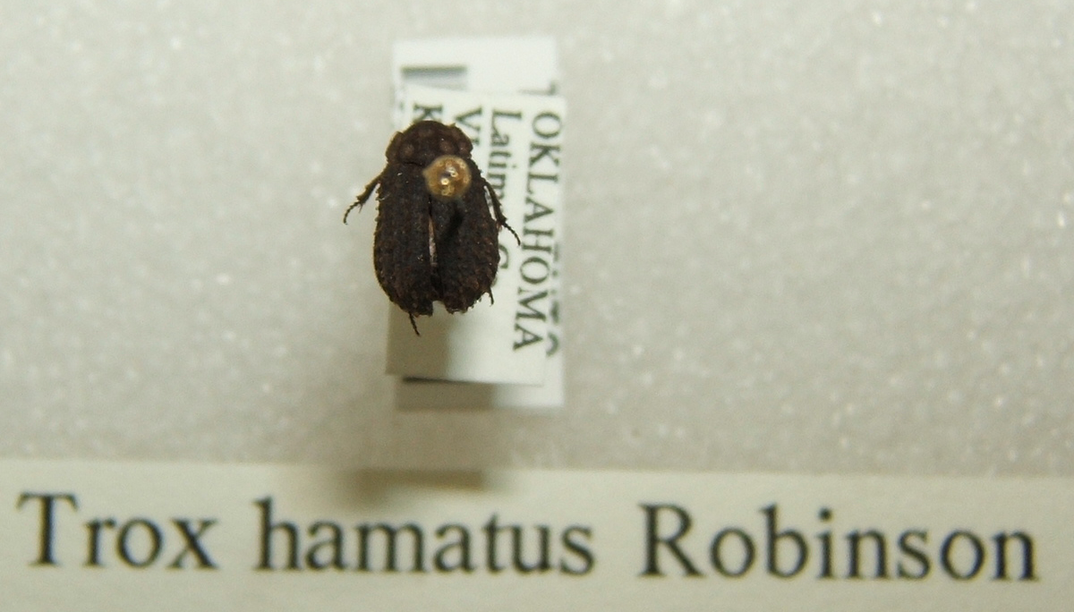 Trox hamatus adult taken by Shawn Hanrahan at the Texas A&M University Insect Collection in College Station, Texas. Cropped version: Trox hamatus sjh.cropped.jpg